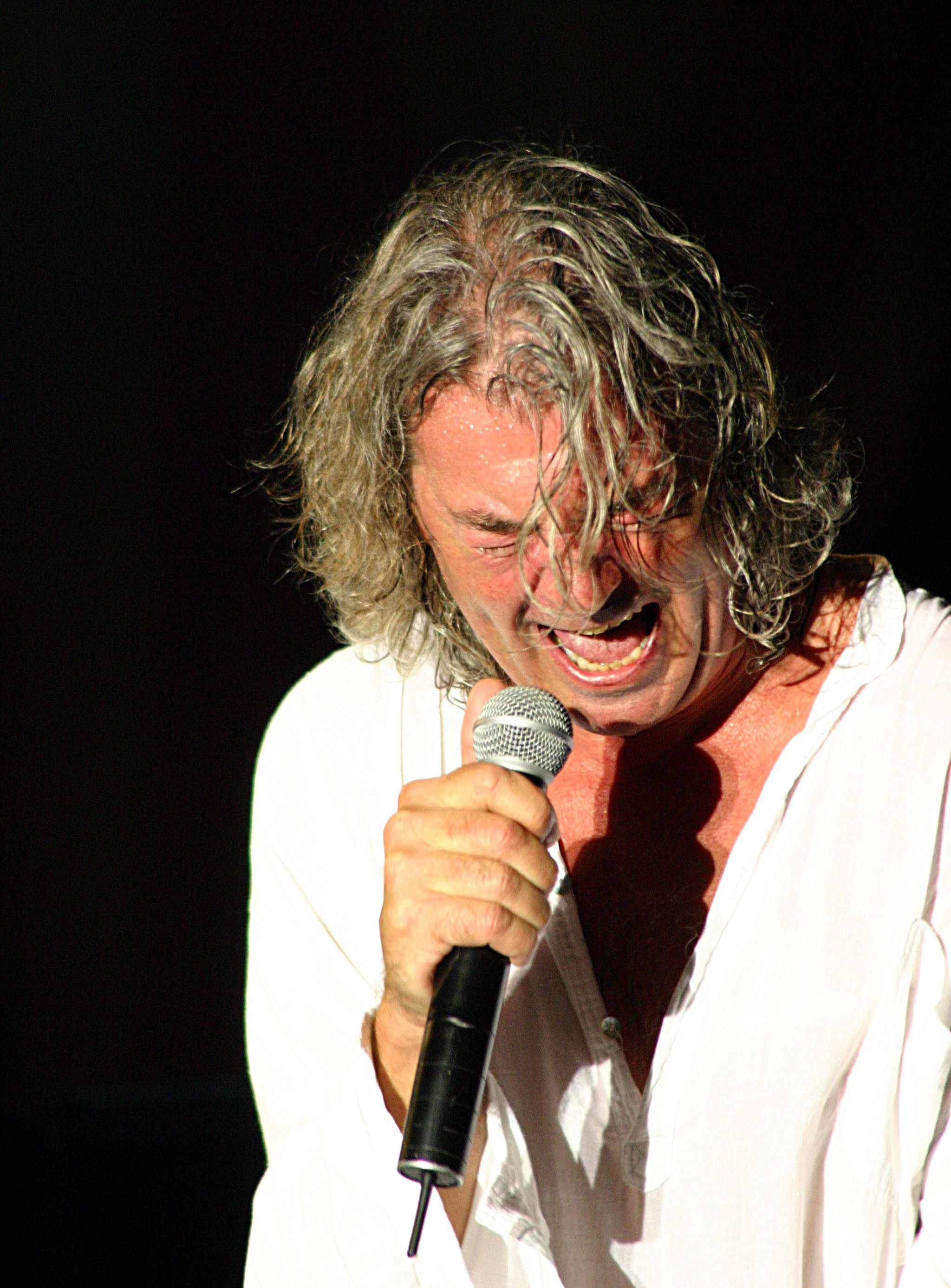 Deep Purple in Nicosia, Cyprus